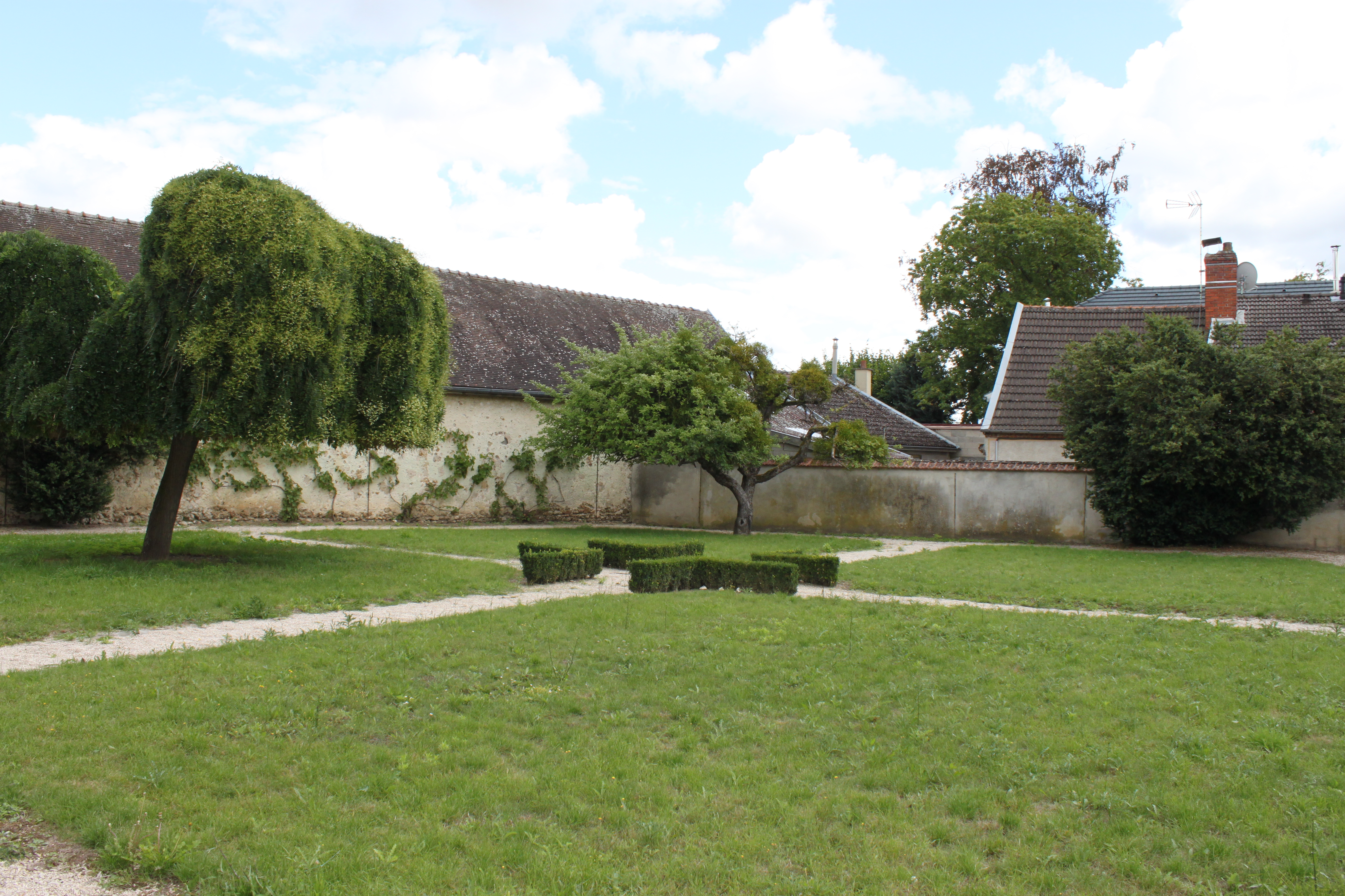 Garden of the Benedictine House in Pierry